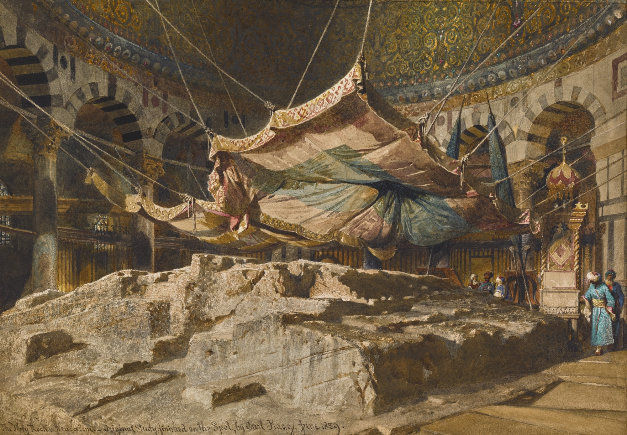 Foundation stone in the interior of the Dome of the Rock, Jerusalem